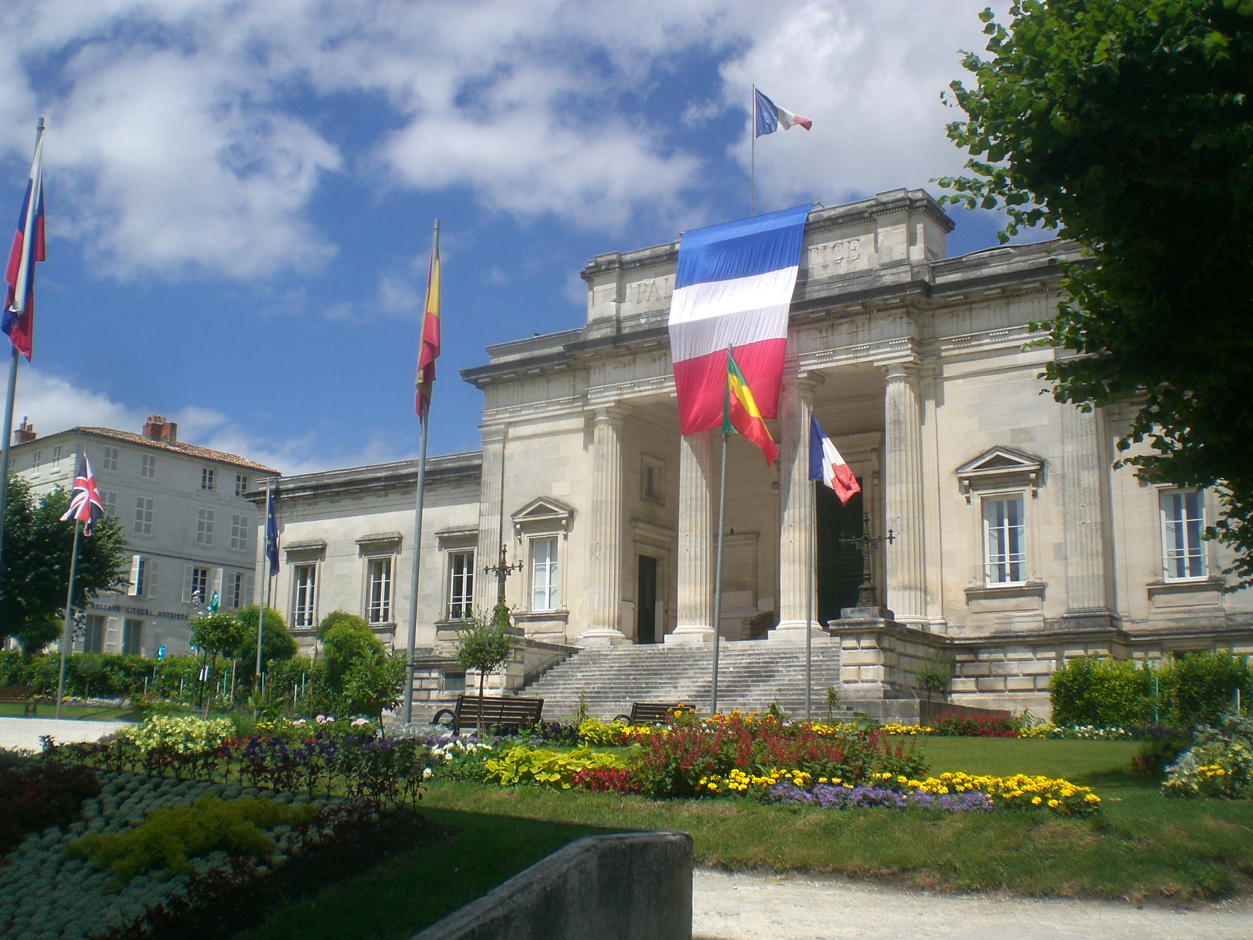 the courtyard in Saintes during a summer day